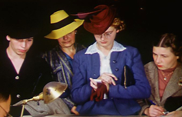 Still image from the 'Art in Action' 16mm Kodachrome film produced by Orville C. Goldner, at the Golden Gate International Exposition c1939